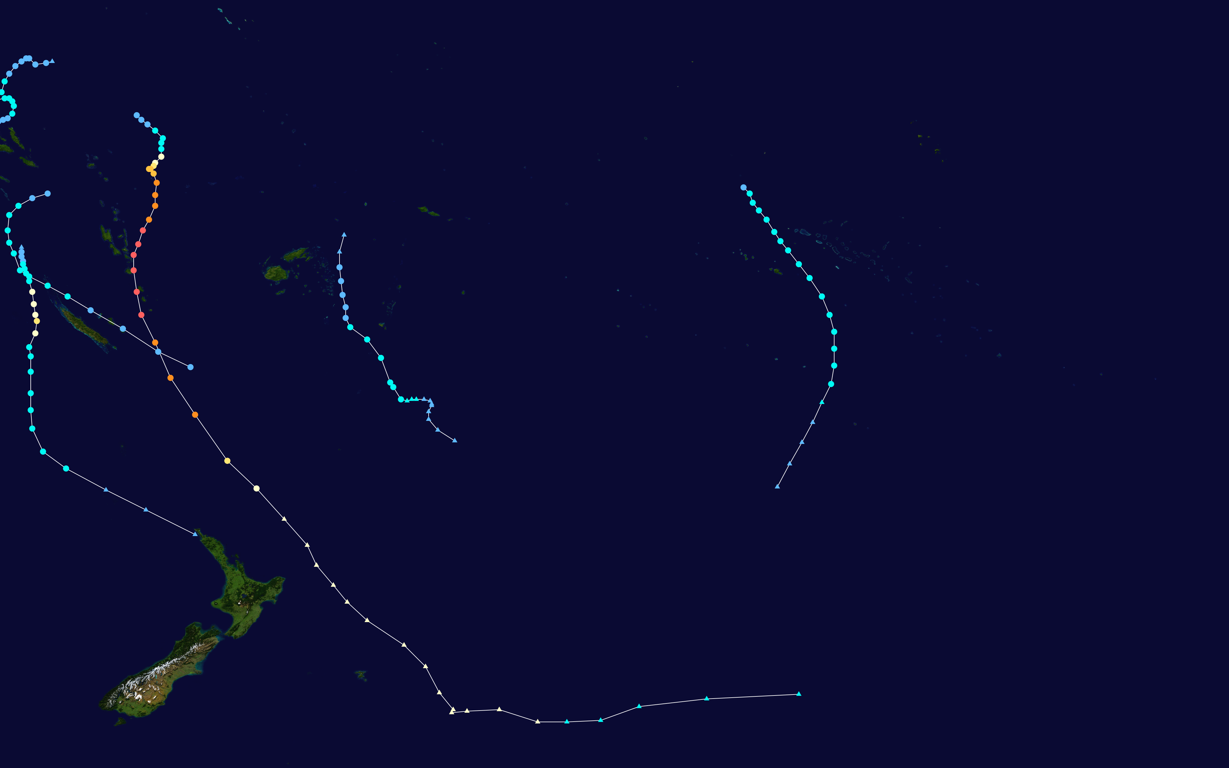 This map shows the tracks of all tropical cyclones in the 2014-15 South Pacific cyclone season. The points show the location of each storm at 6-hour intervals. The colour represents the storm's maximum sustained wind speeds as classified in the Saffir-Simpson Hurricane Scale (see below), and the shape of the data points represent the type of the storm. Saffir–Simpson scale Tropical depression≤38 mph≤62 km/h Category 3111–129 mph178–208 km/h Tropical storm39–73 mph63–118 km/h Category 4130–156 mph209–251 km/h Category 174–95 mph119–153 km/h Category 5≥157 mph≥252 km/h Category 296–110 mph154–177 km/h Unknown Storm type Tropical cyclone Subtropical cyclone Extratropical cyclone / Remnant low / Tropical disturbance / Monsoon depression